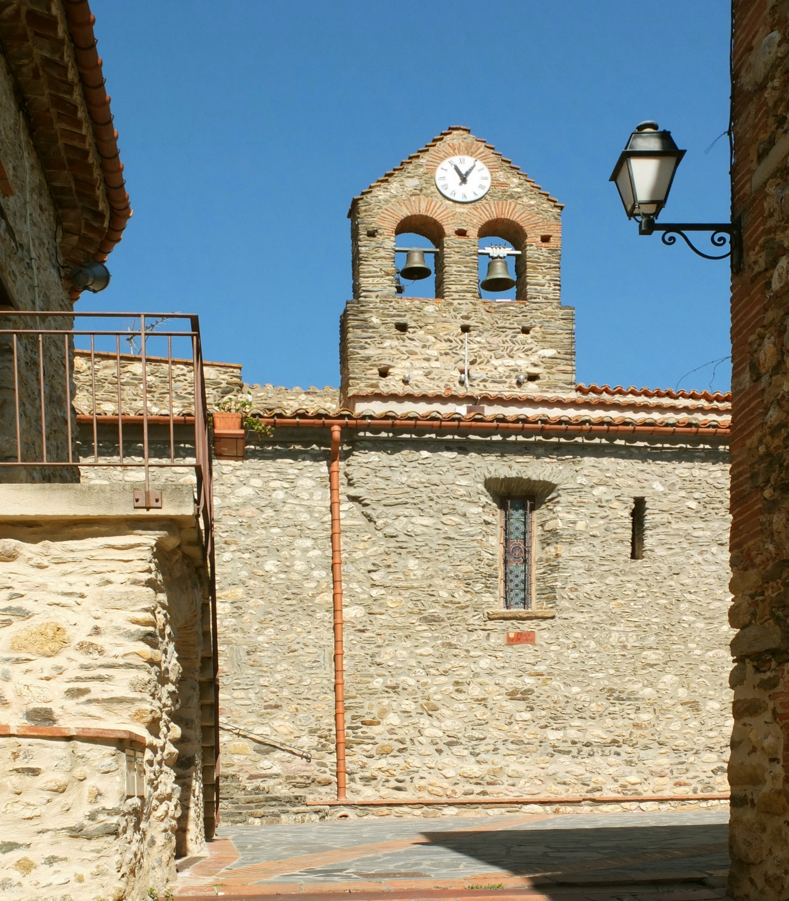 Church Saint-Michel de Vivès, France (view south)